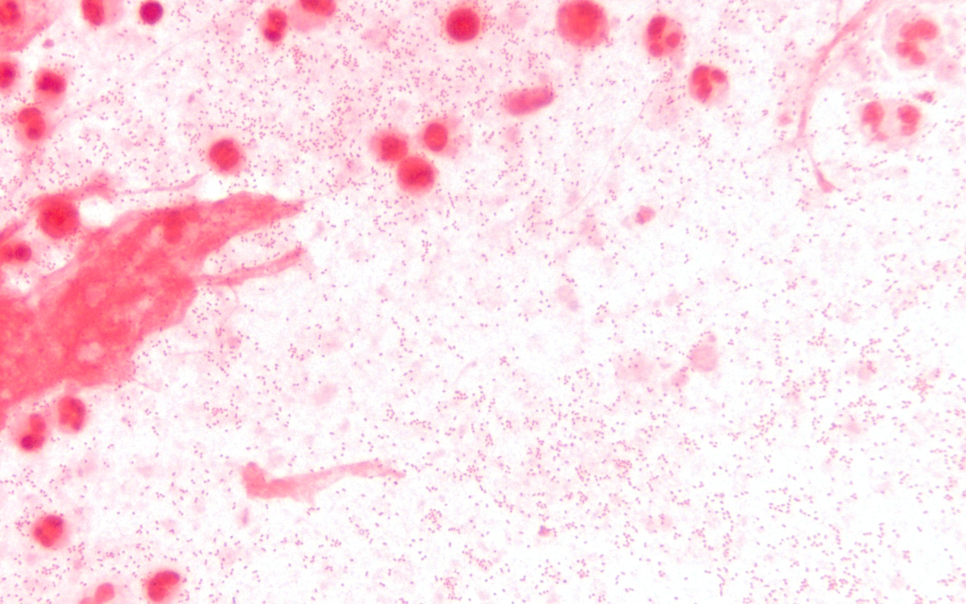 Sputum Gram stain at 1000x magnification. The sputum is from a person with Haemophilus influenzae pneumonia, and the Gram negative coccobacilli are visible with a background of neutrophils, which are white blood cells indicative of acute inflammation.